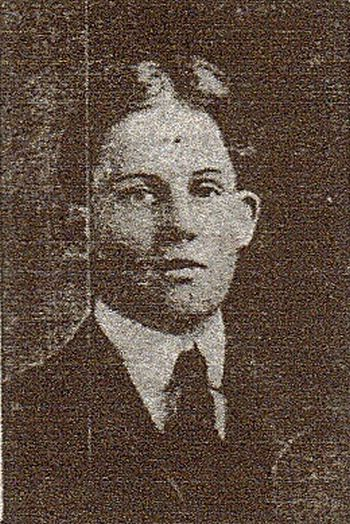 Photo of Oregon businessman Henry Ladd Corbett, published in Morning Oregonian, 7 July 1903